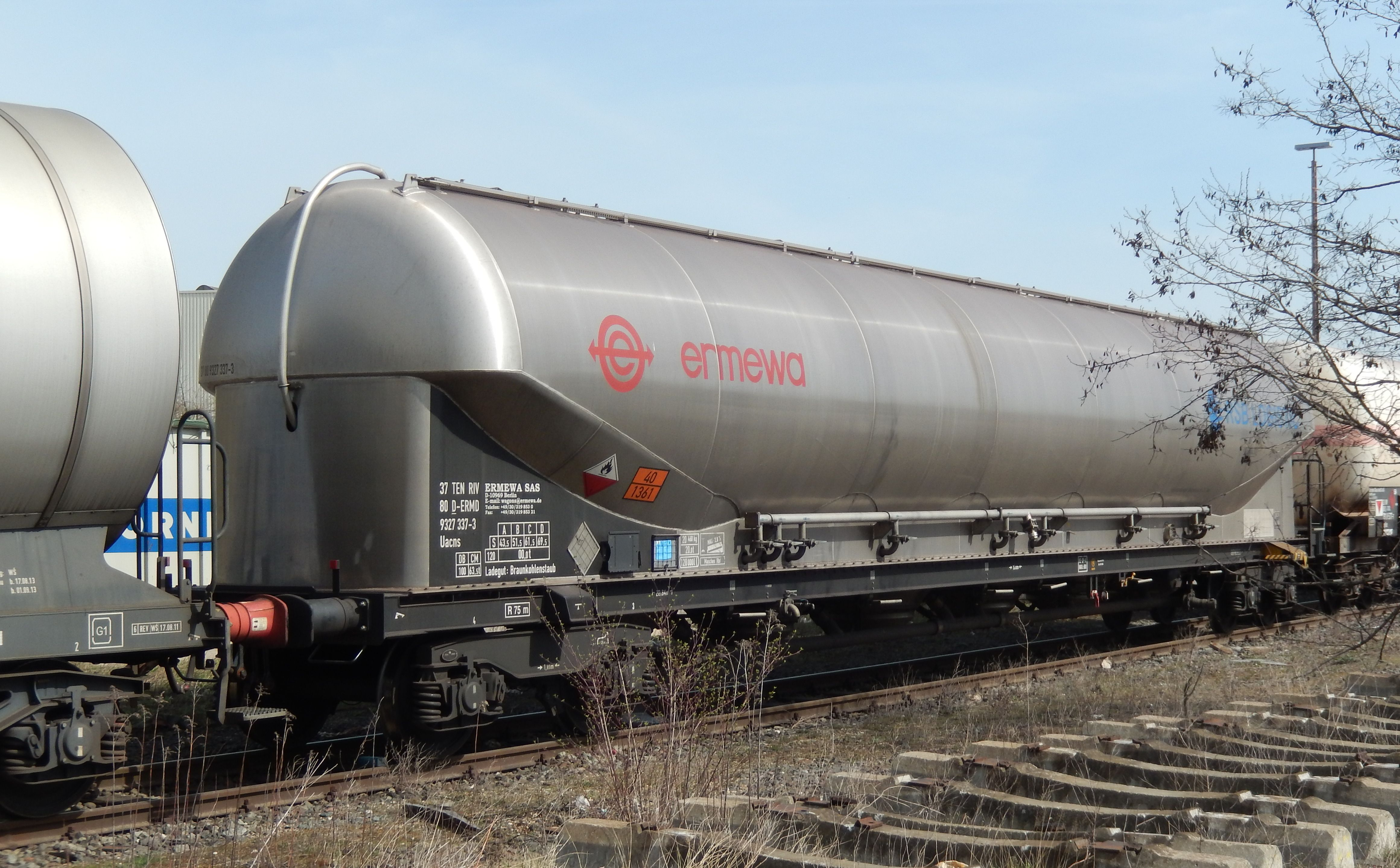 Railway waggon for coal dust.